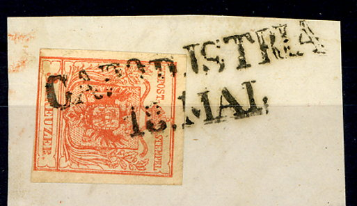 Austria Issue I - 3 kreuzer - cancelled Capo d'Istria